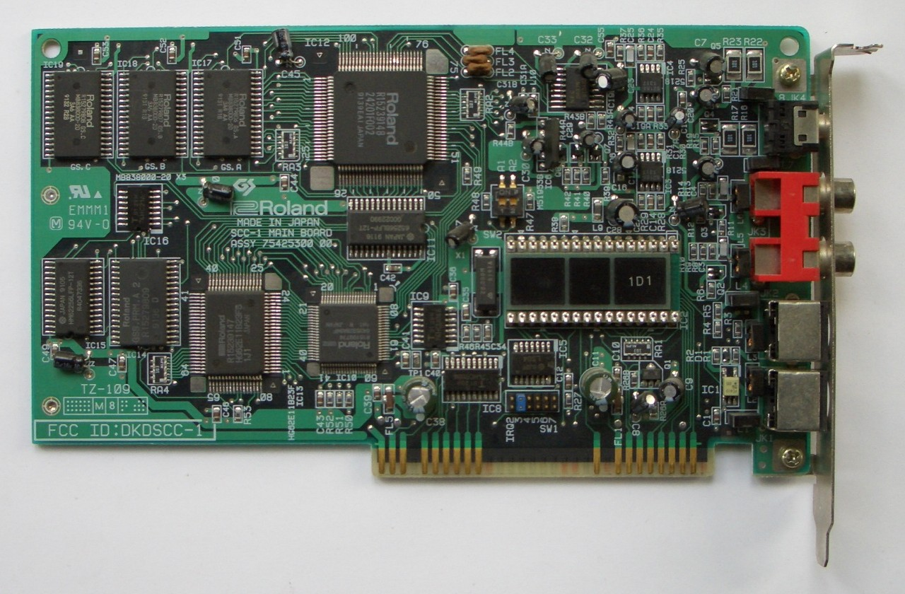 Roland SCC-1, a MIDI interface and Roland SC-55 (Sound Canvas) synthesizer on one card. Released in 1991. the SC-55 was the first sound module to incorporate the new General MIDI standard.